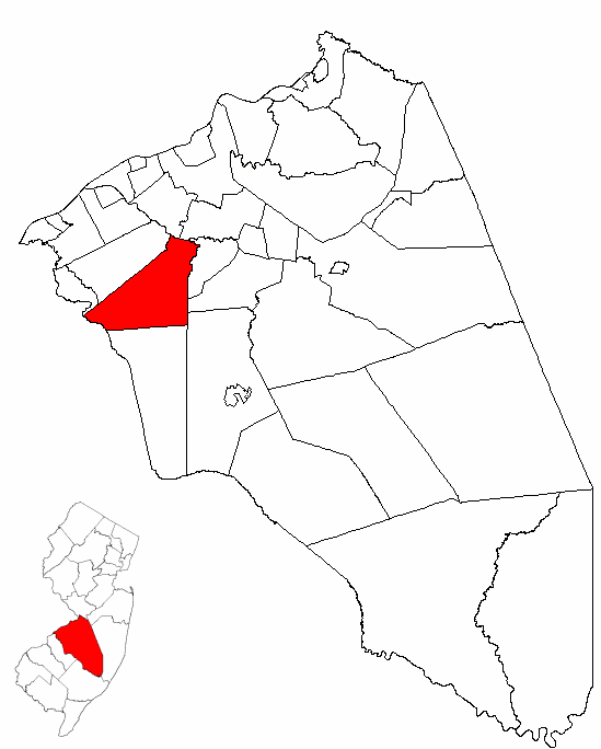 Map of Burlington County highlighting Mount Laurel Township